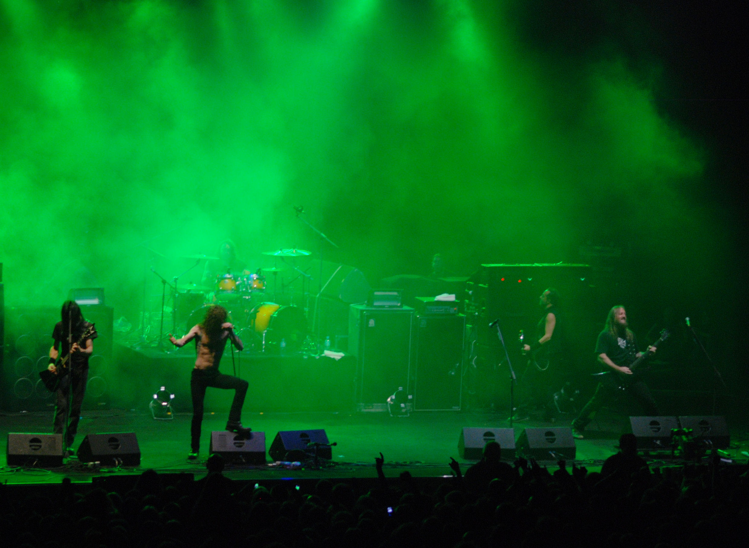 Overkill during Metalmania 2008 festival